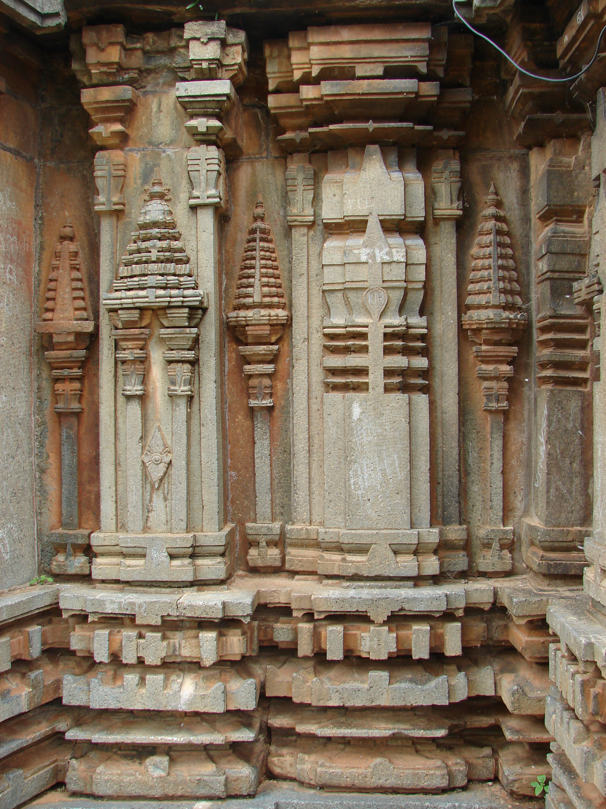 This photograph was taken by me at at Chennakeshava temple in Turuvekere, Tumkur district, Karnataka state, India. The temple was built in 1260 A.D. during the reign of Hoysala Empire King Narasimha III.